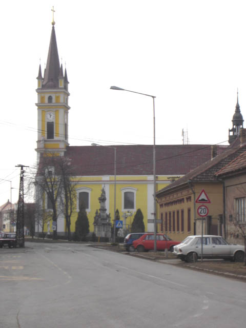 Kanjiža/Magyarkanizsa /Vojvodina /Serbia Main Street and the Catholic Church.